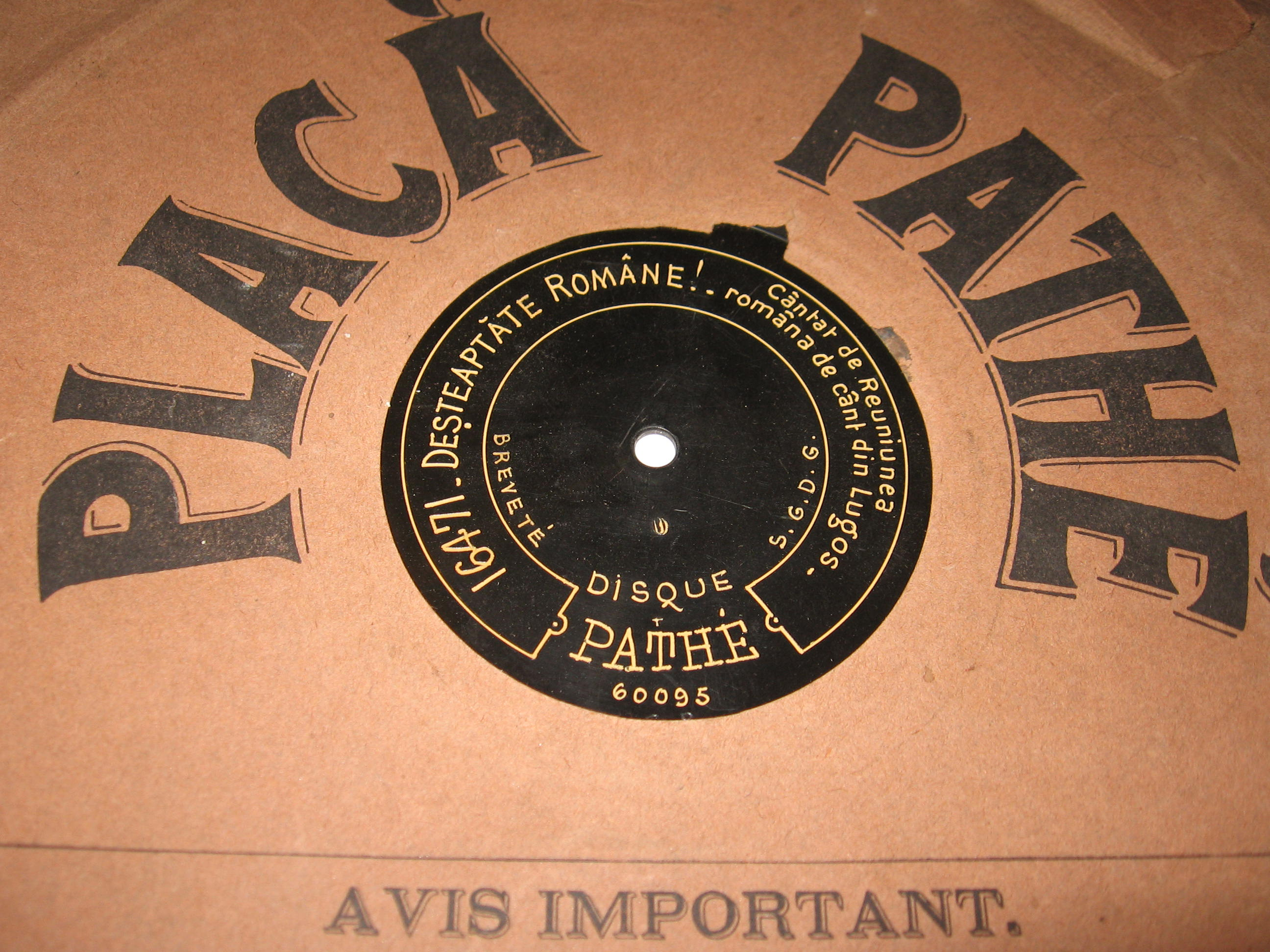 First record of the choral national anthem "Wake Up, Romanian!" Chorus "Ion Vidu" in Lugoj, 1910.